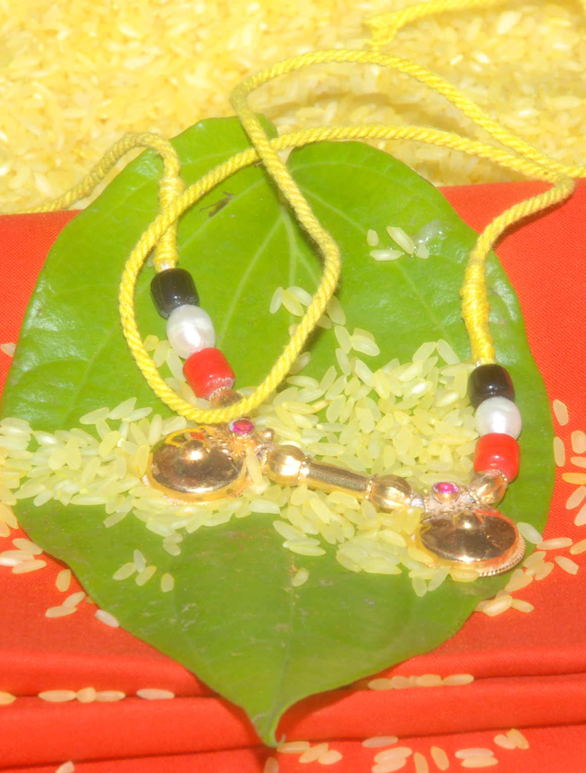 A Telugu style mangala sutra